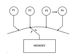 sequential consistency illustration